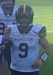 Dane Evans, quarterback for the Hamilton Tiger-Cats.